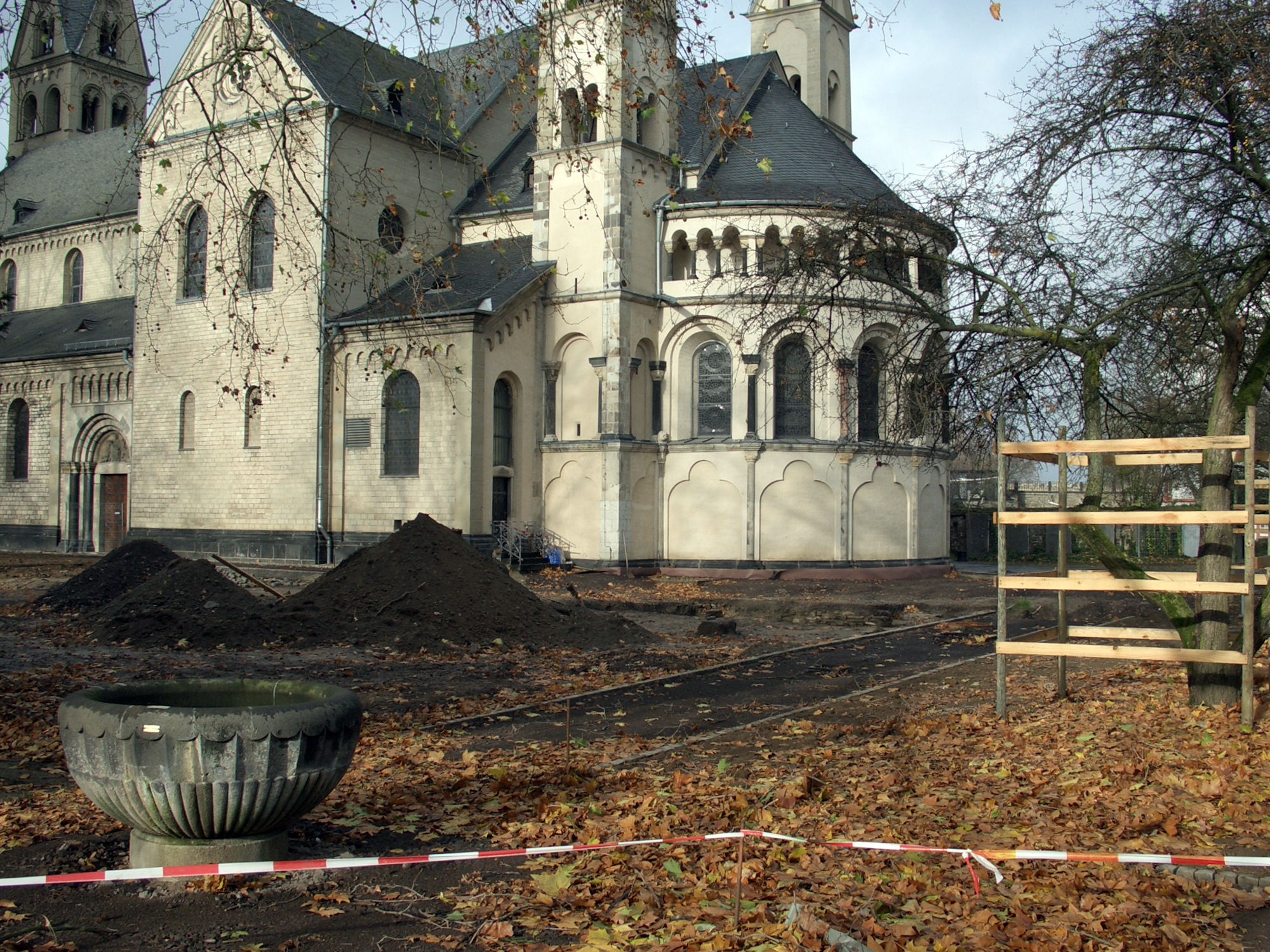 Find spot of the roman castellum nearby the Basilika St. Castor in Koblenz